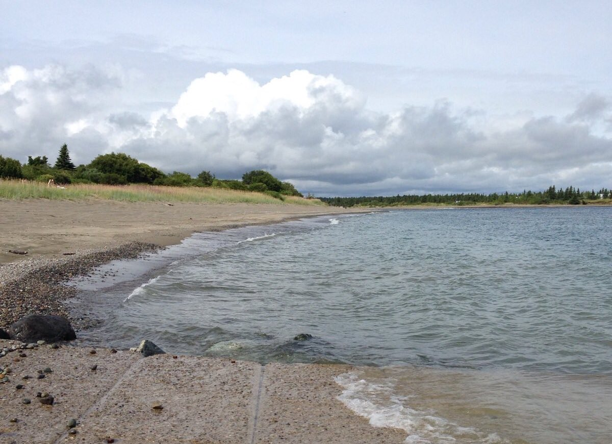 Soon the Kvichak River currents will provide the residents of Igiugig emission-free electricity. This will demonstrate the potential of river marine renewable & microgrid solutions as Alaskans continue to find innovative energy solutions that can be adopted across the globe.